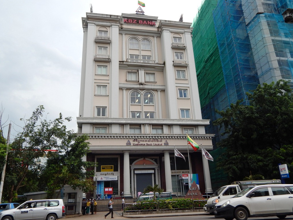 Kanbawza Bank, Yangon, Burma